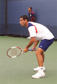 Self Made Pic Andy Ram